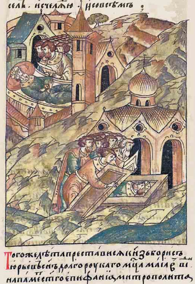 Death of Boris Yurevich of Turov